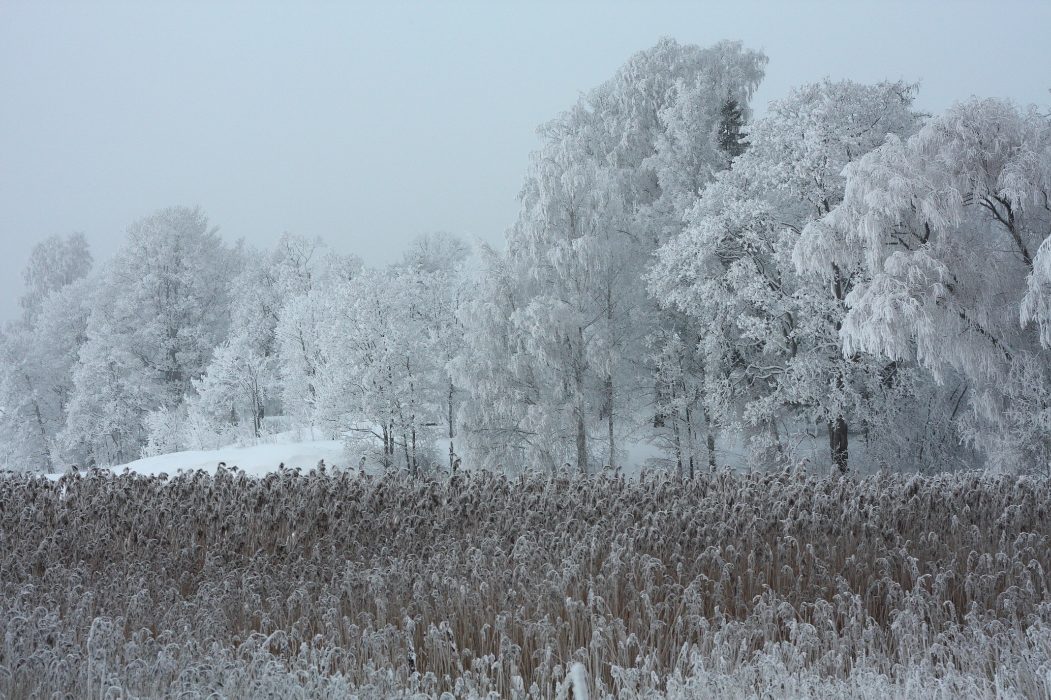 Rime in Lapinlahti, Helsinki, Finland.